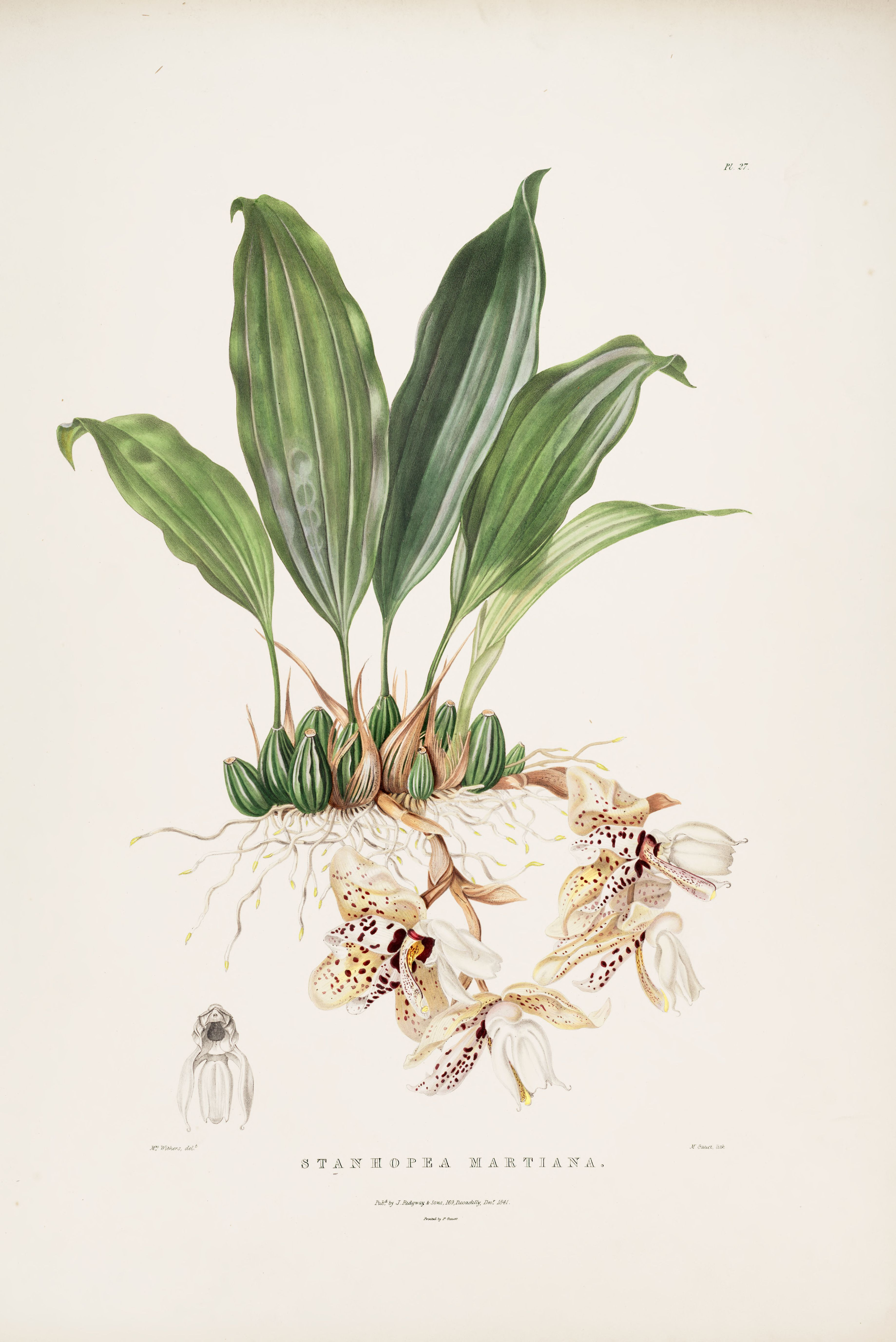 Illustration of Stanhopea martiana